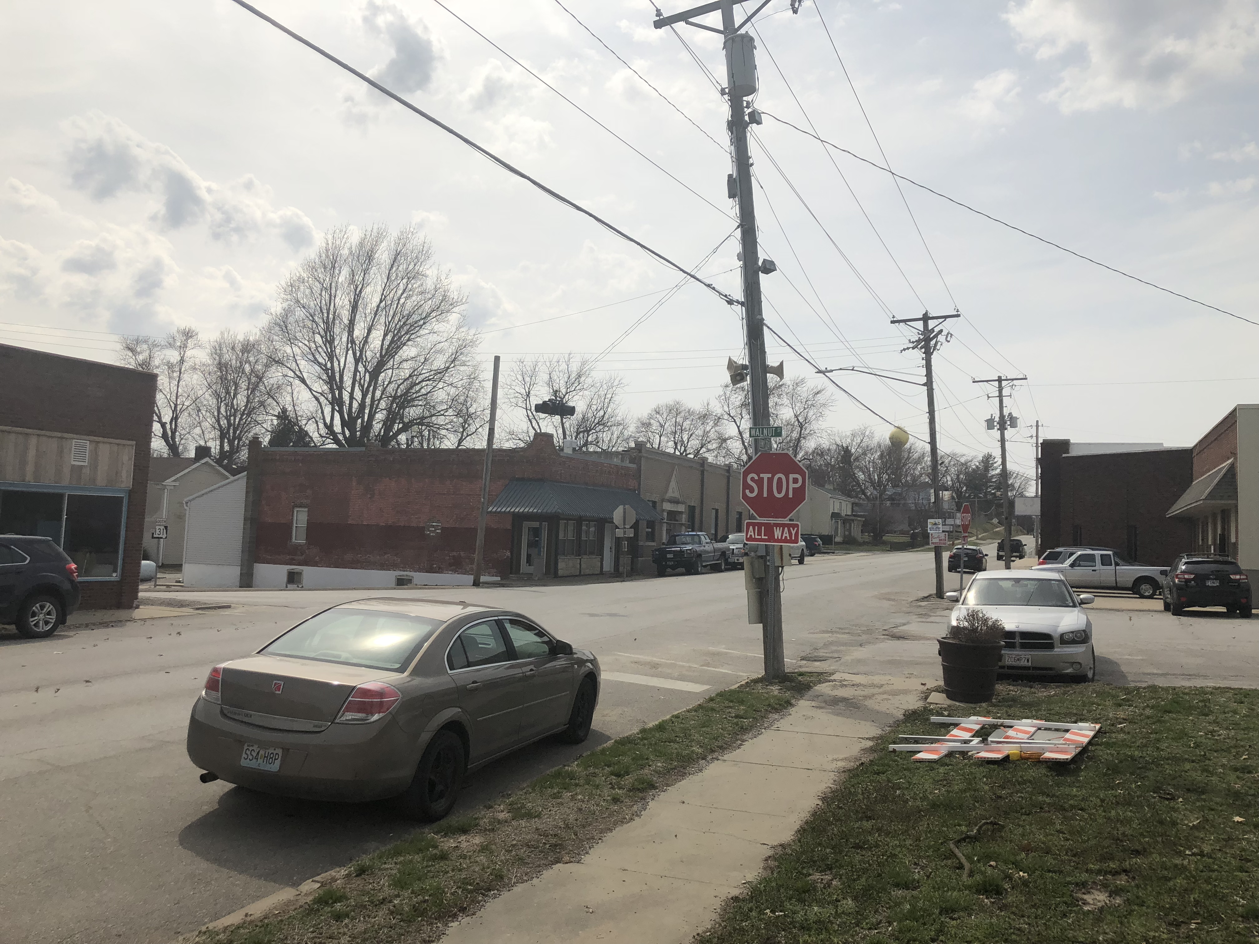 Downtown Wellington, Missouri on March 27, 2019